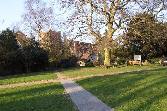 Selborne, Hampshire. The church and the green, known as the Plestor. Gilbert White, the pioneering naturalist, lived almost opposite at The Wakes, which is now a museum.